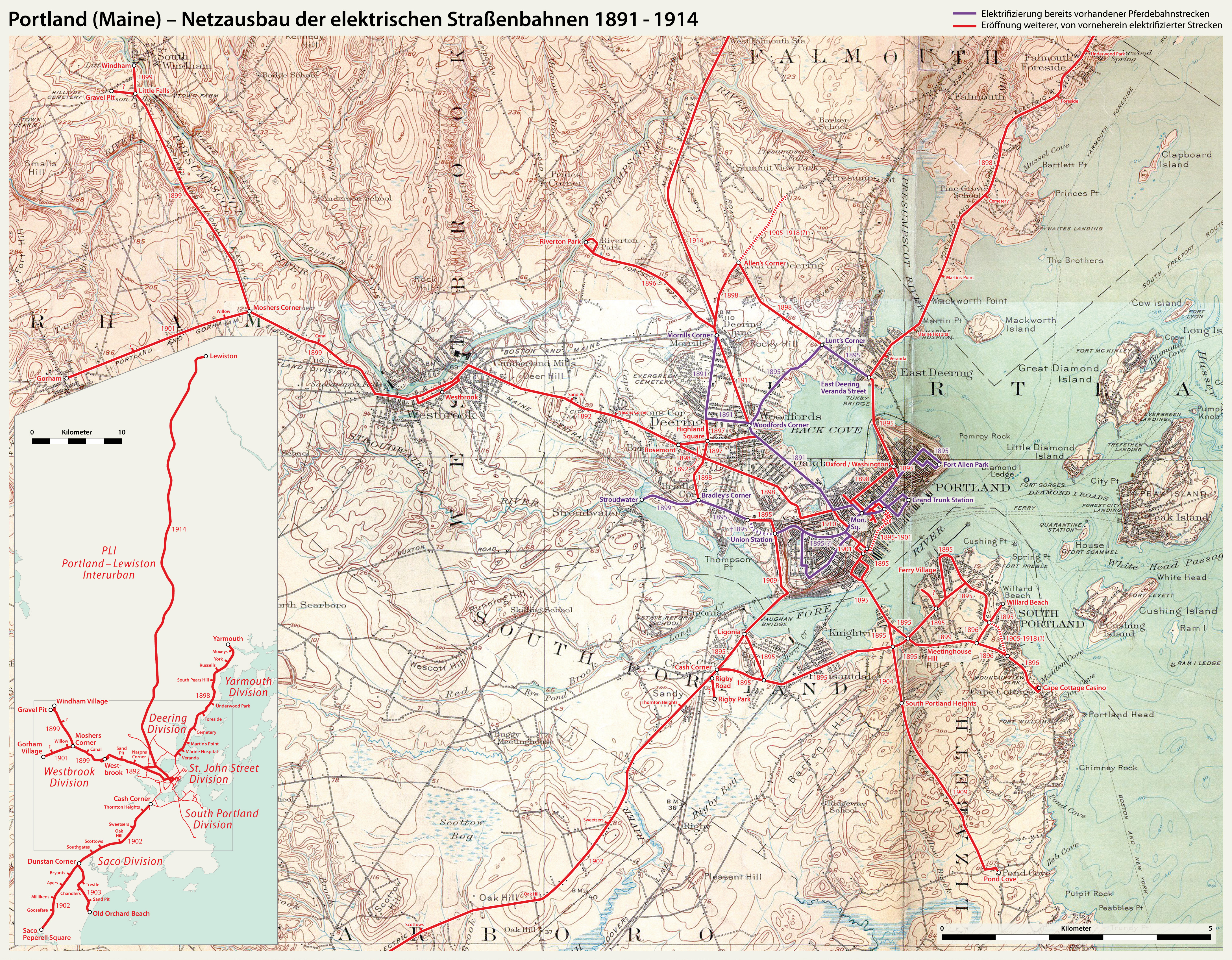 Routes of the Portland, Maine electric railways system 1891-1914 on a 1916 background map from the USGS